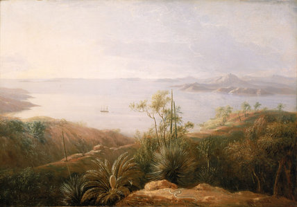 A Bay on the South Coast of New Holland, an early 19th century oil painting by William Westall. The original is held by the National Maritime Museum. The bay depicted is Lucky Bay, Western Australia. The painting is loosely based on Westall's January 1802 sketch entitled Lucky Bay.